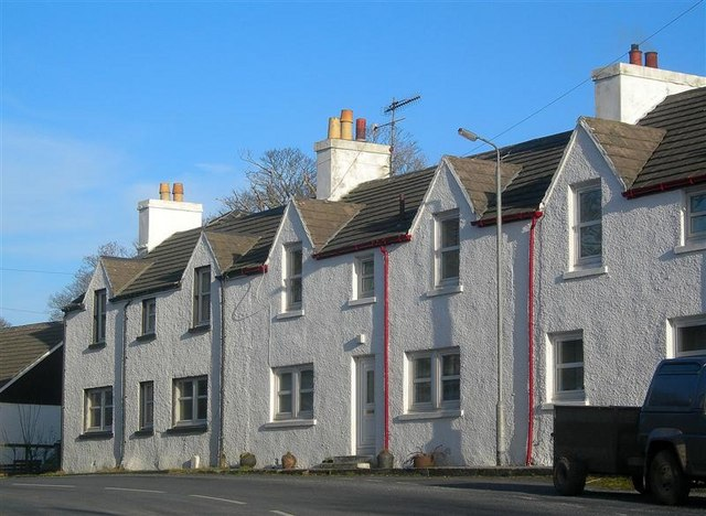 A terrace of houses at Ballygrant, Islay